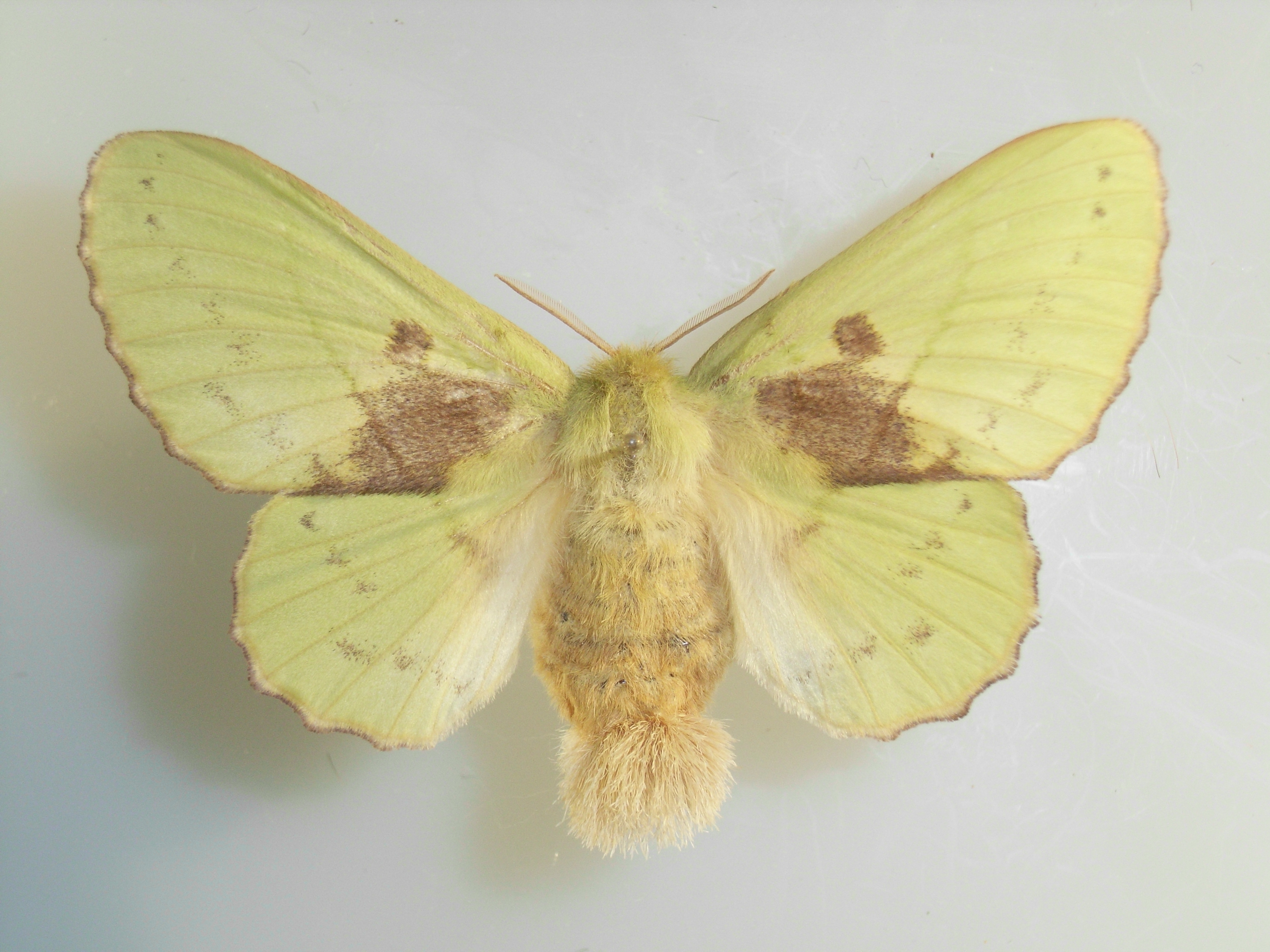 Trabala vishnou(Lefèbvre, 1827) Male Ex coll. Felix Stumpe